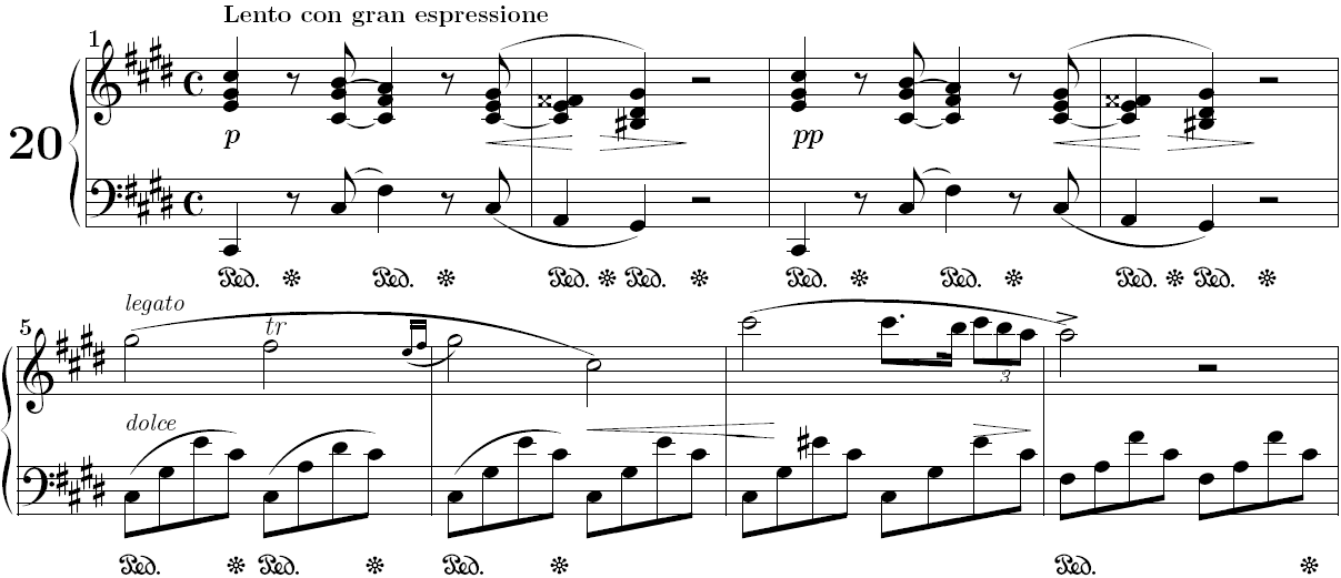 Opening bars of Chopin's Nocturne No 20, Opus Posthumous, in C-sharp minor.